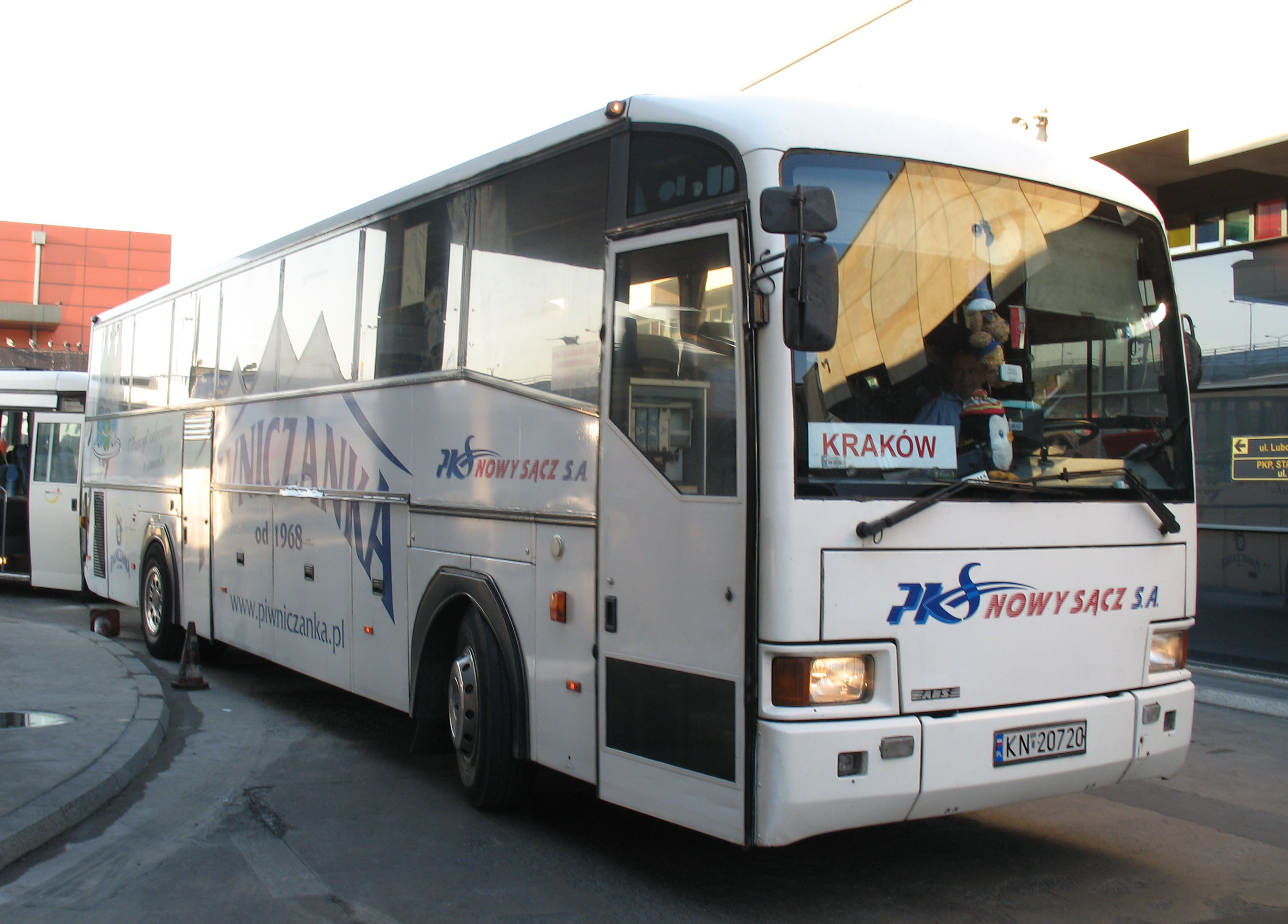 Jelcz T120/3 Ewa coach in Kraków, Poland. Built 1999, PKS Nowy Sącz operator.